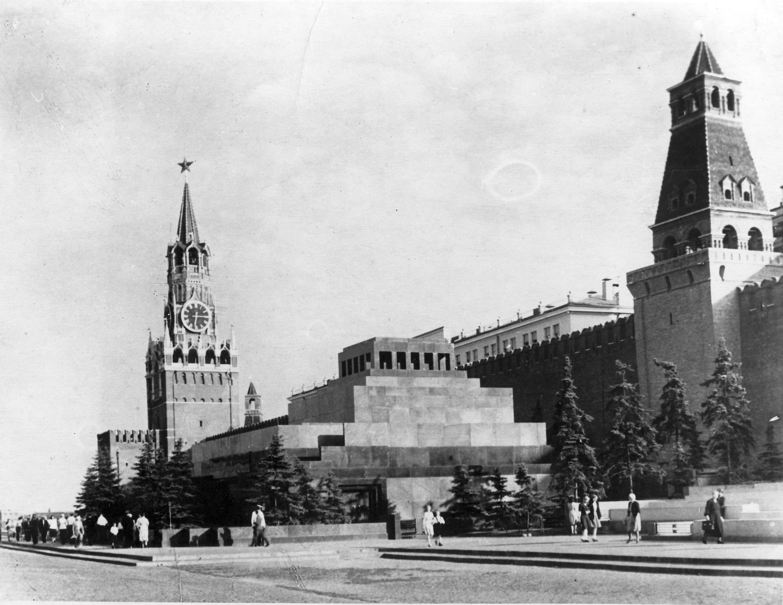 Lenin's tomb in Red Square, Moscow